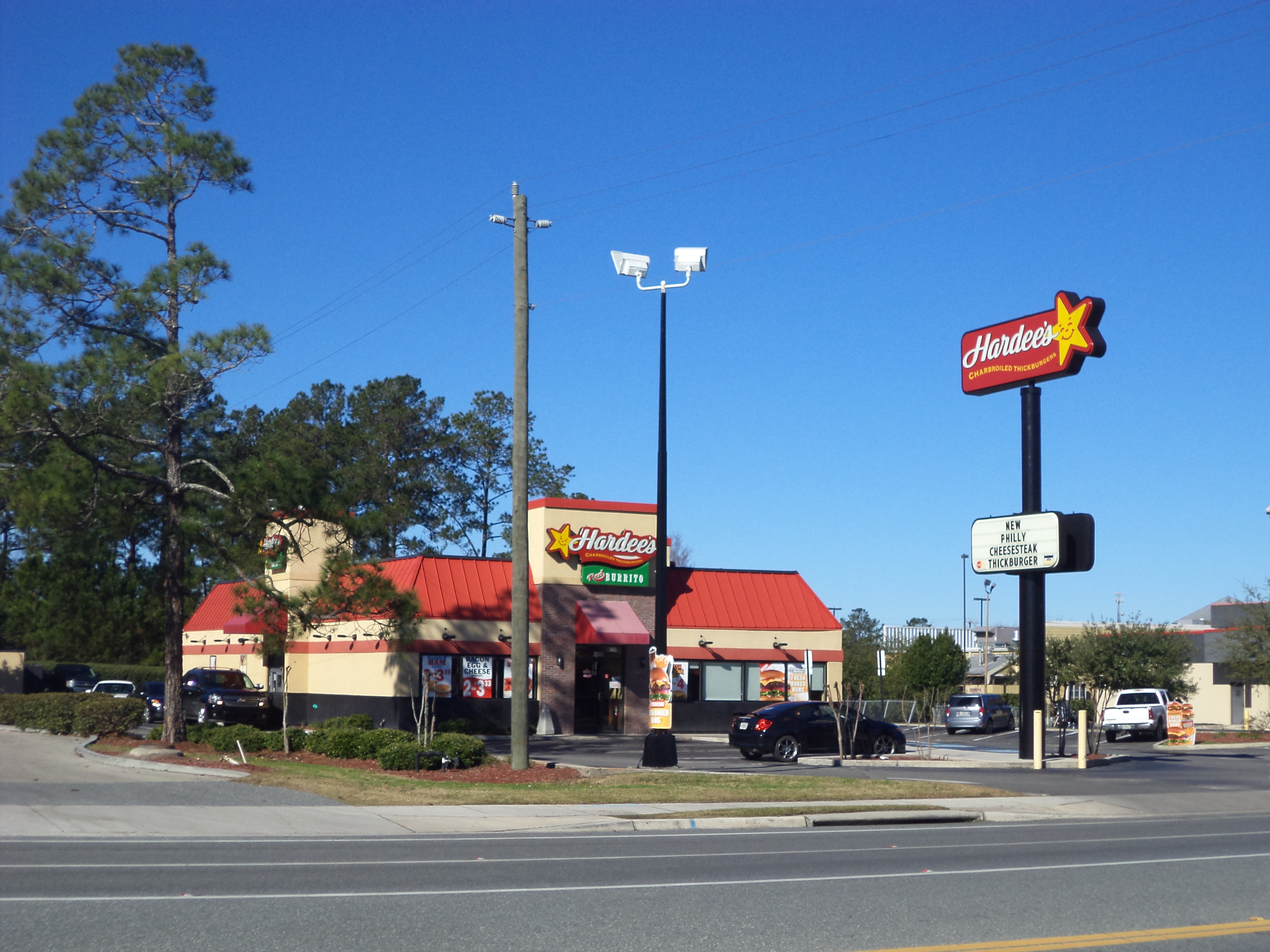 Hardee's, 1490 S 6th St, Macclenny, Baker County, Florida